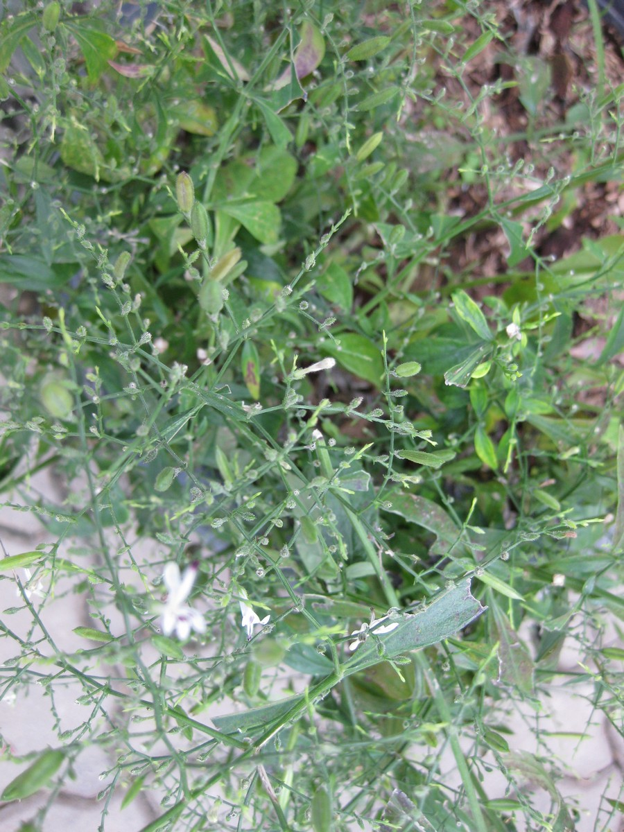 Andrographis paniculata (Burm. f.) Wall. ex Nees. Photographed at the Queen Sirikit Botanic Garden (Chiang Mai Province, Thailand) in March